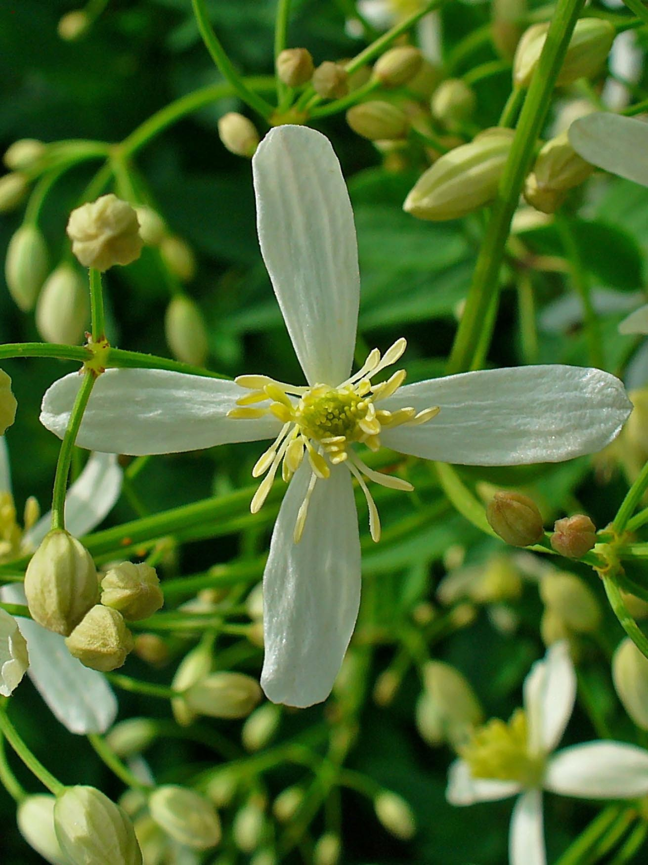 Clematis recta, Ranunculaceae, Erect Clematis, Ground Virginsbower, flower. The fresh fresh, aerial parts of blooming plant are used in homeopathy as remedy: Clematis (Clem.)